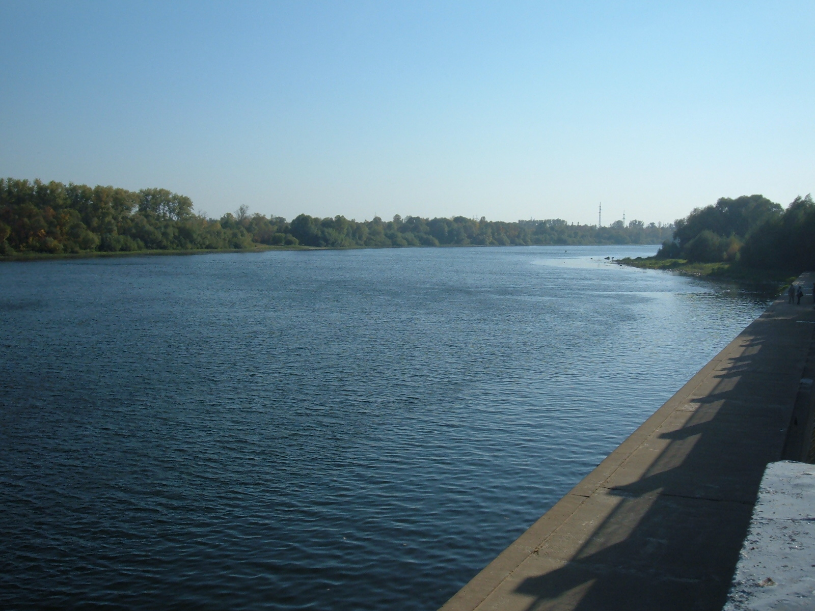 Sož river in Homiel city park, Belarus.